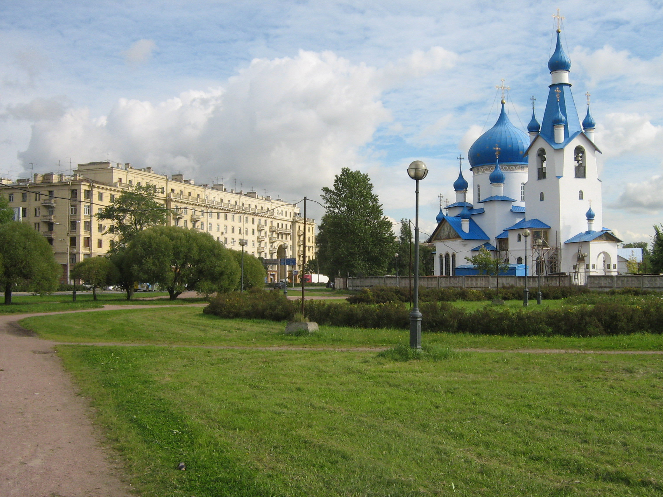 Saint Petersburg (Russia), Victory Square. Park Gorodov Geroev